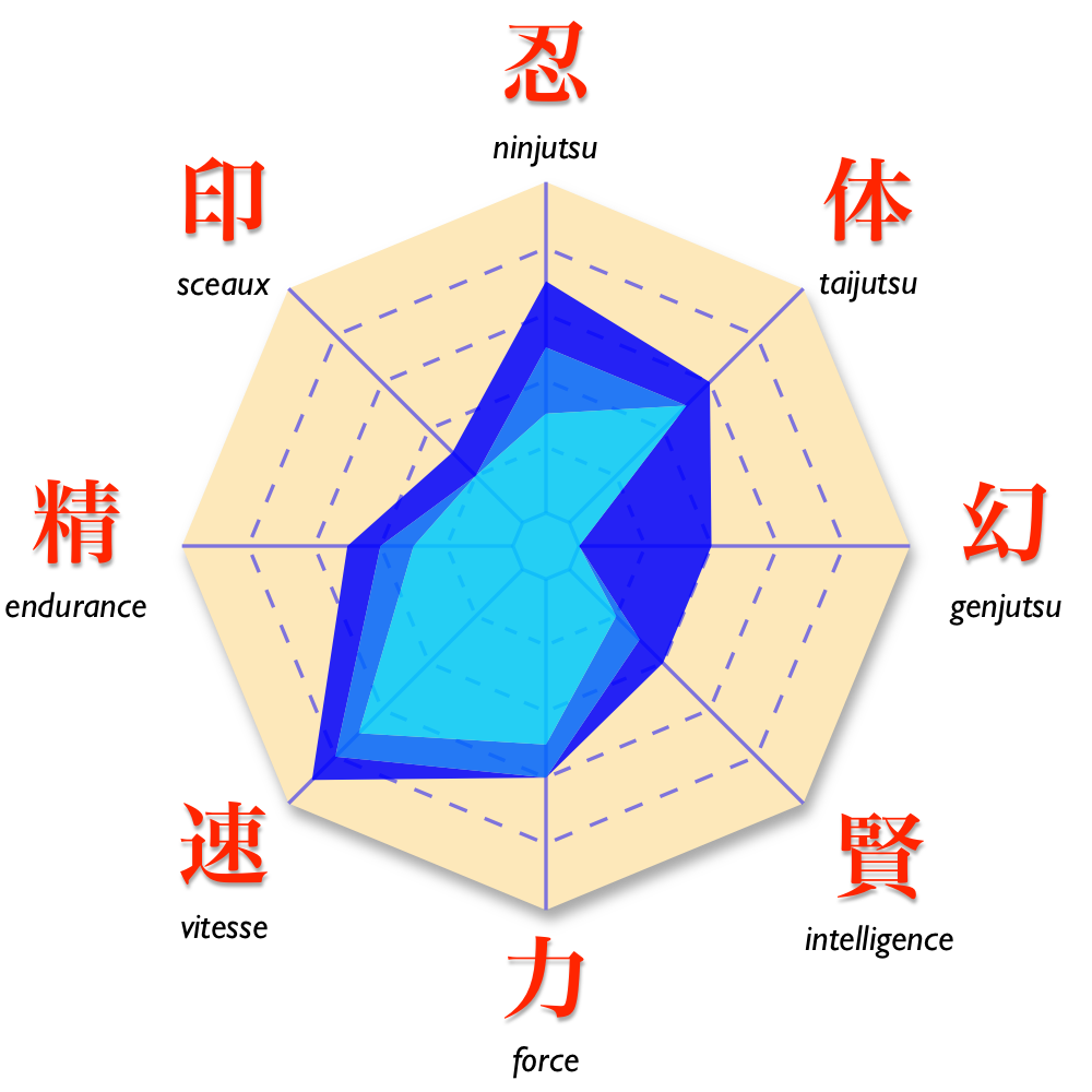 Naruto manga - Character "Kiba" - Capabilities evolution diagram from Official Databooks data